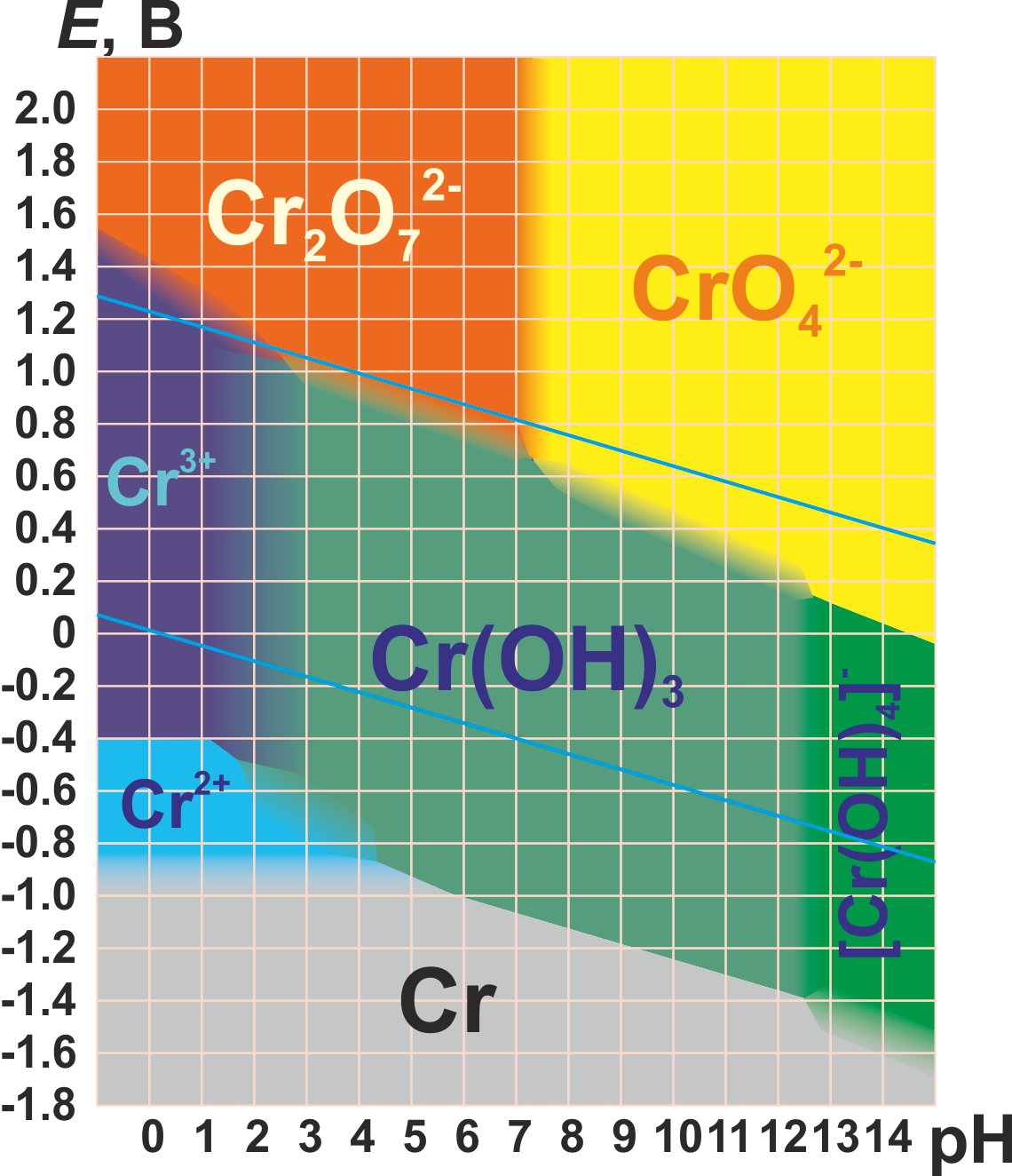 Pourbaix diagram for Chromium. The colours are relevant to the real forms. Fuzzy borders depend on concentration, sharp borders do not depend. Cyan lines denote the borders of water stability region. The diagram is plotted basing on the data from: Handbook for Chemist, vol. 3, Chemistry Publishers, pp. 814-822 (in Russian)